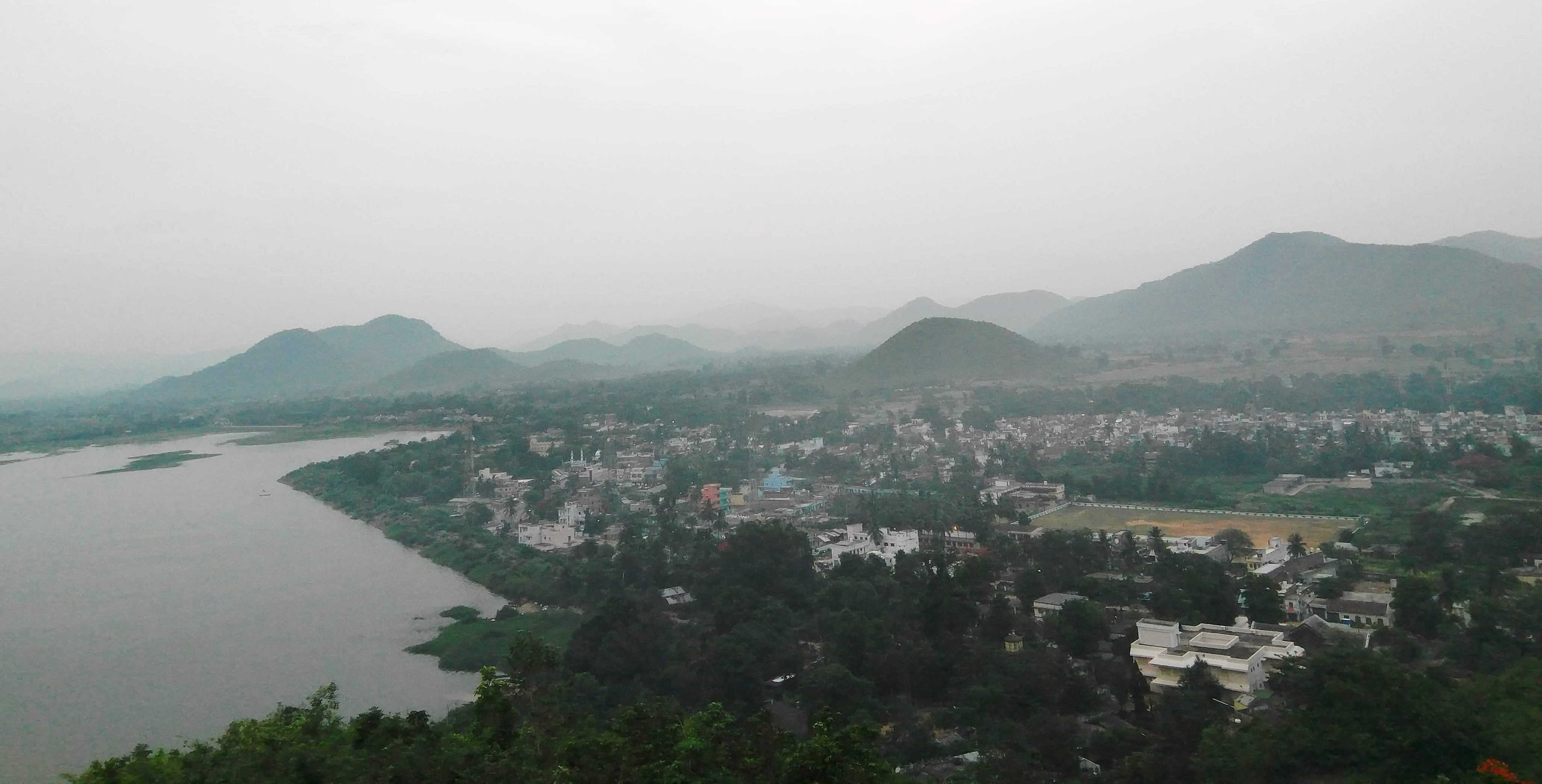 surada city